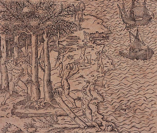 Universal cosmography illustrated with various remarkable things Vol. 2, André Thevet, 1575. Library of Congress. Rare Book and Special Collections Division